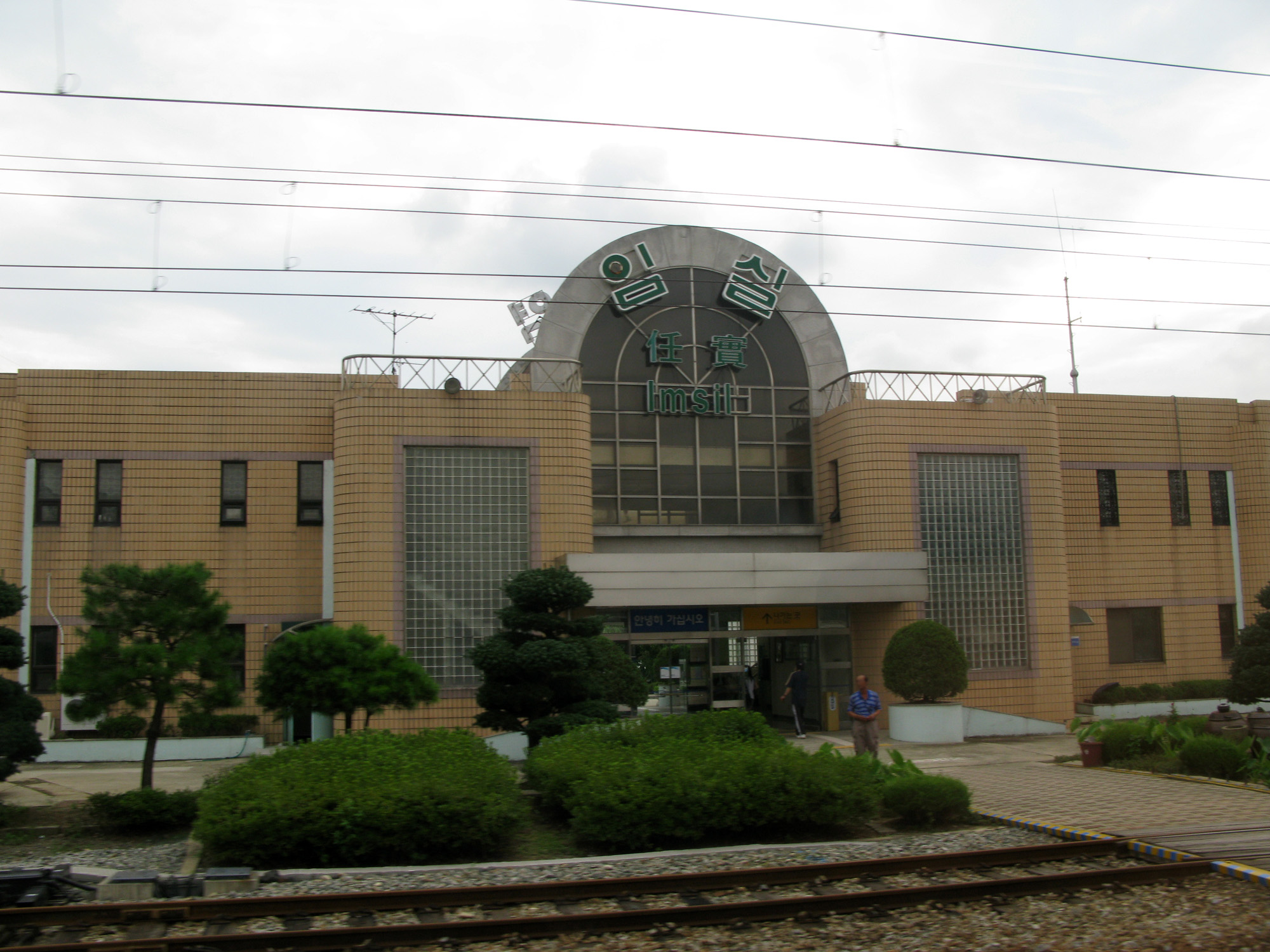 Jeolla Line Imsil Station